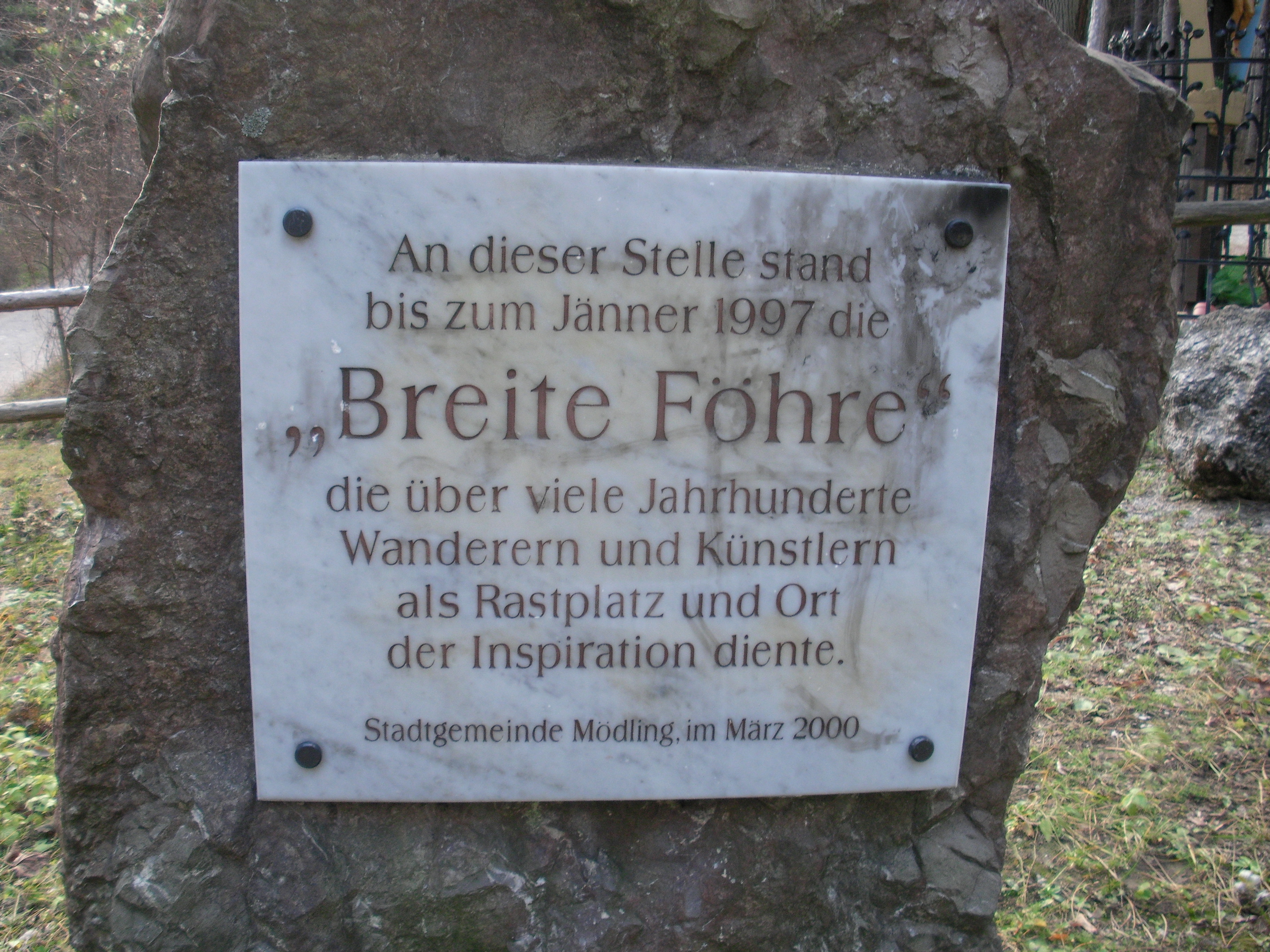 Broad pine memorial Anninger Vienna Woods